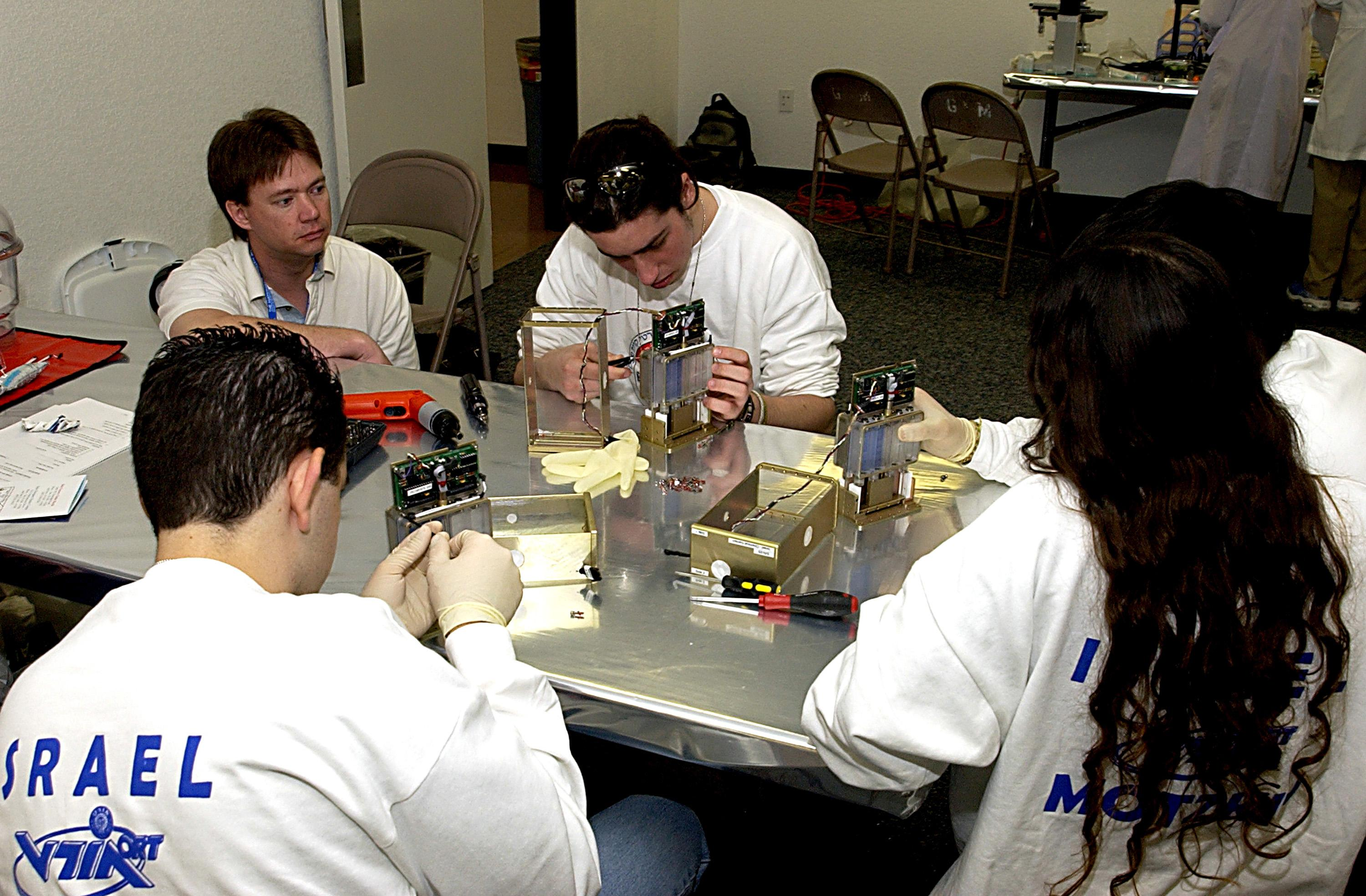 Students work on their experiment that will fly in SPACEHAB on Space Shuttle Columbia on mission STS-107. SPACEHAB's experiments includes six educational experiments designed and developed by students in six different countries under the auspices of Space Technology and Research Students (STARS), a global education program.